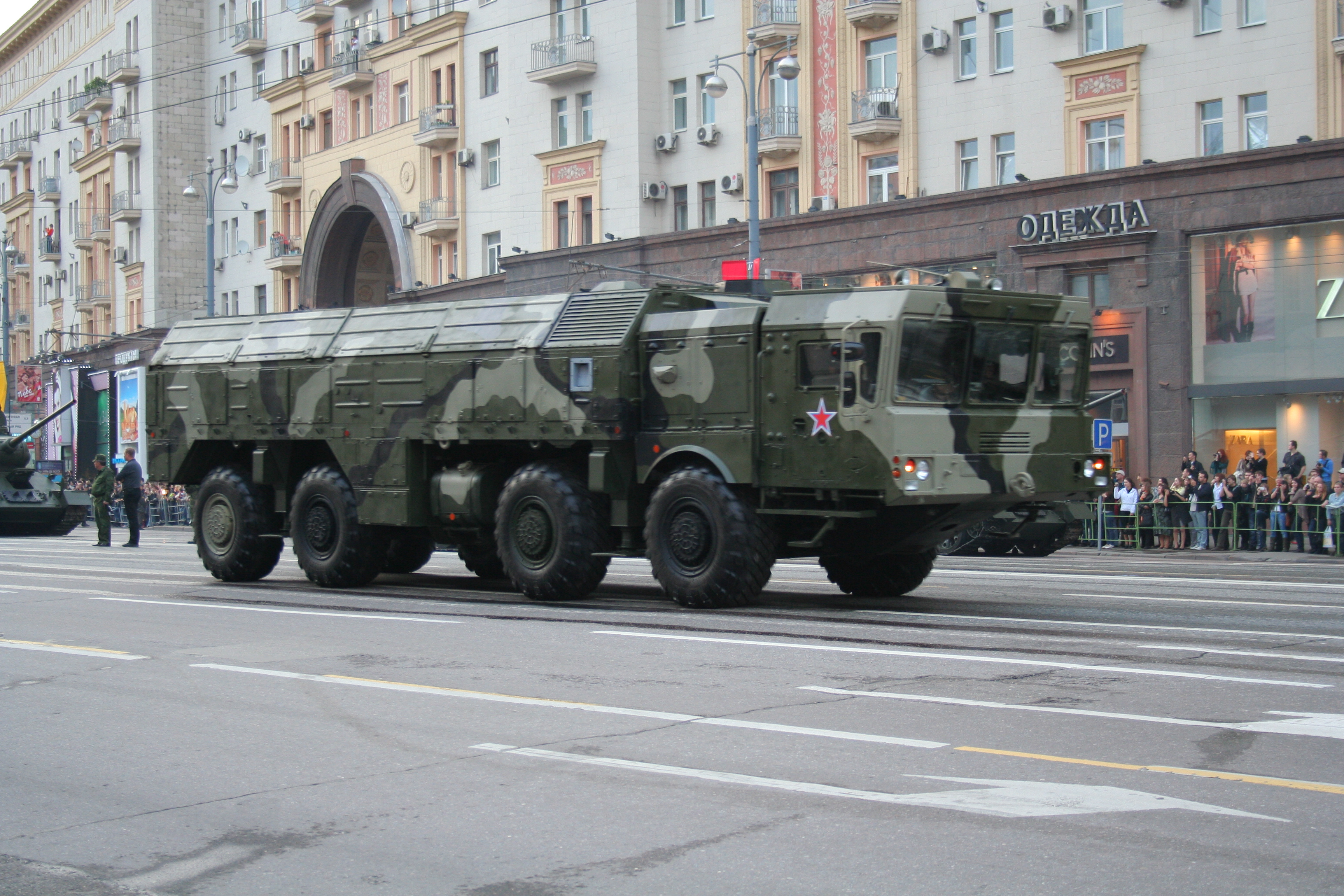 Training of Moscow Victory Parade 2010